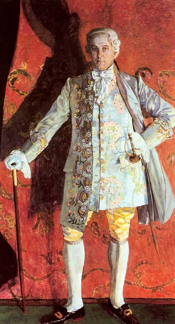 Russian tenor Dmitri Smirnov as Chevalier des Grieux in Jules Massenet's opera Manon. Portrait by Alexander Golovin.